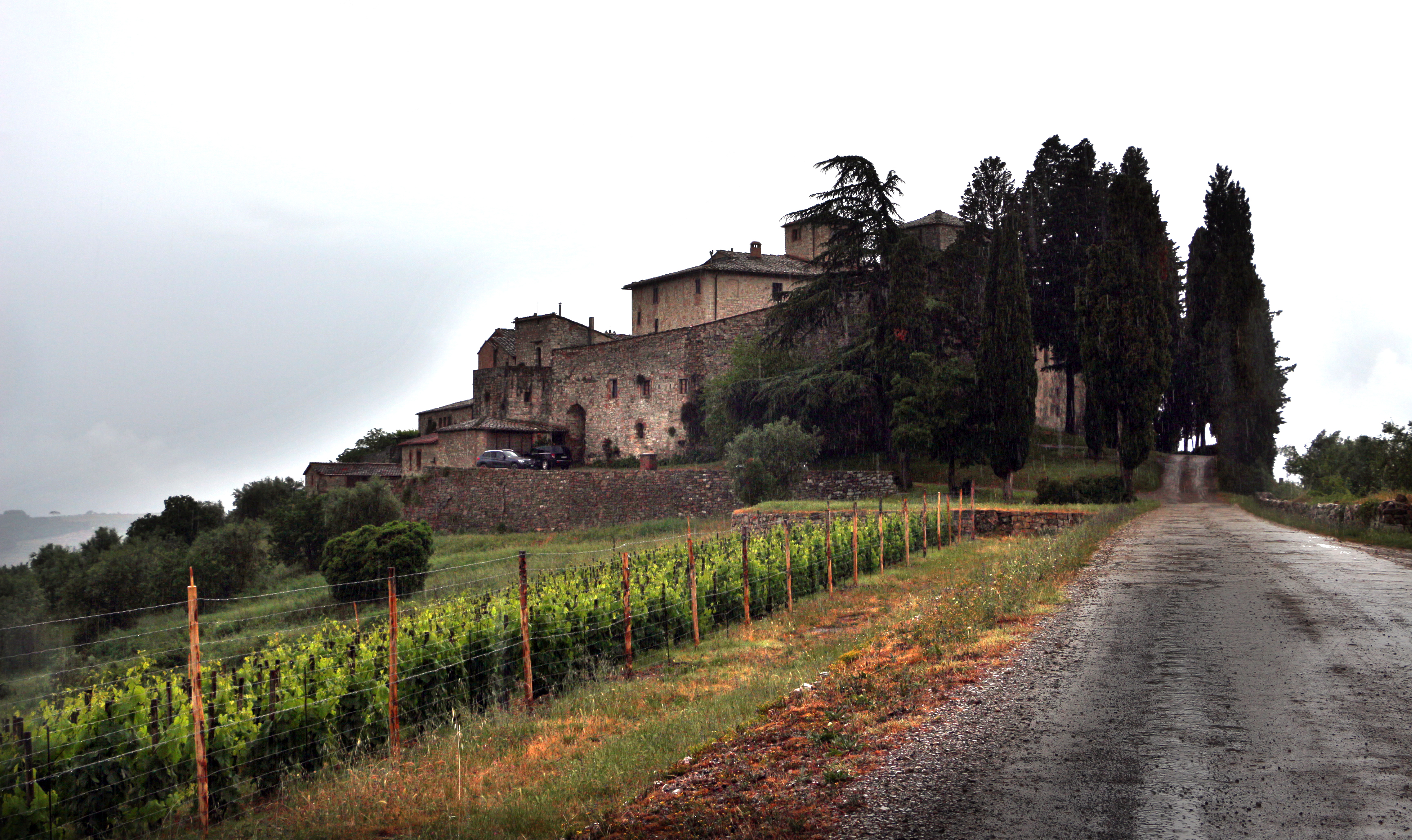 Castellina in Chianti